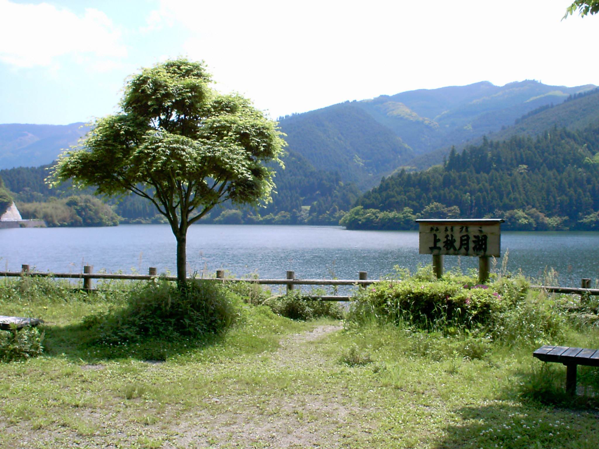 The Kami-akizuki reservoir of the Egawa dam in Fukuoka, Japan. Nukadake in the right background. (上秋月湖。福岡県にある江川ダムの貯水池。右奥は糠岳。)